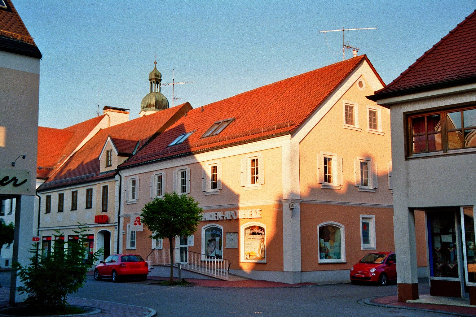 Pharmacy (Marien-Apotheke) in Pöttmes, District Aichach-Friedberg, Bavaria, Germany. The building ist listed as a a cultural heritage monument.